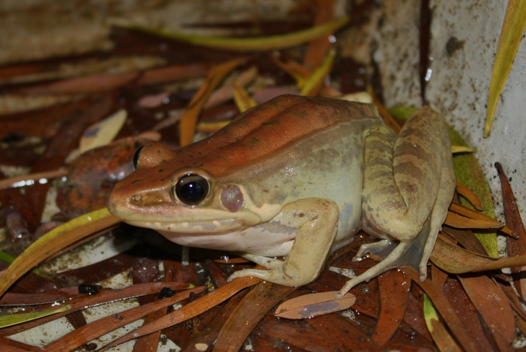 Found inside a water catchment on Lantau.